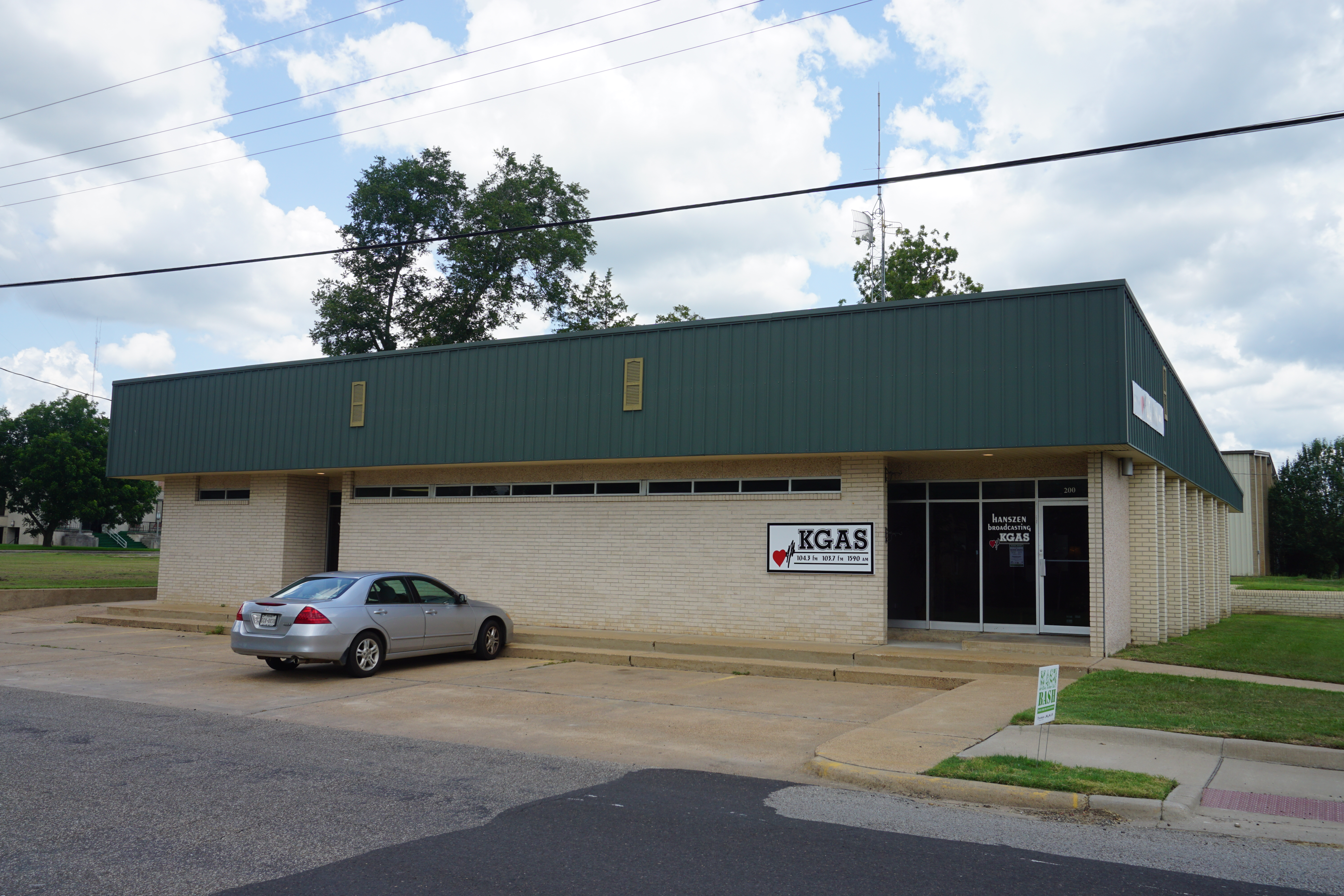 The KGAS (AM and FM) building in Carthage, Texas (United States).